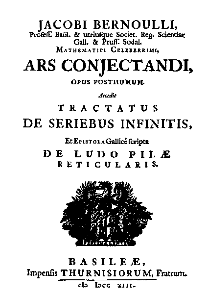 Front page of "Ars conjectandi" by Jacob Bernoulli